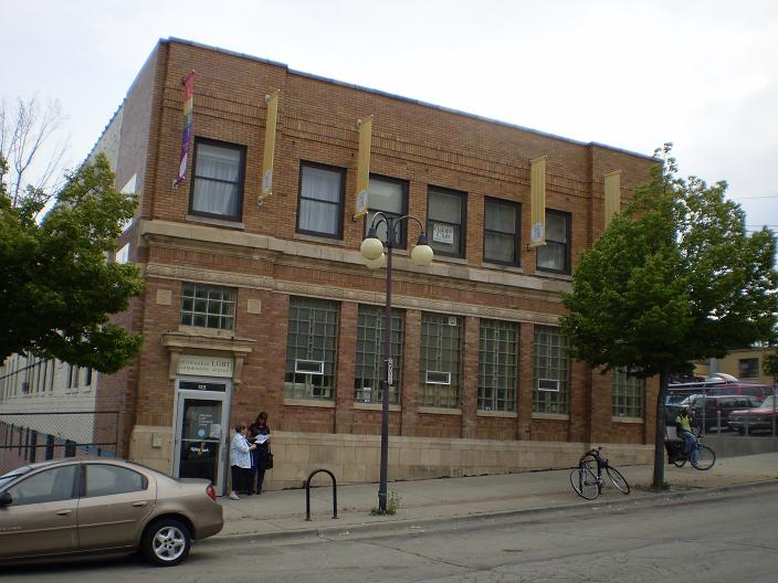 Milwaukee's LGBT Community Center Building from 2002-2011